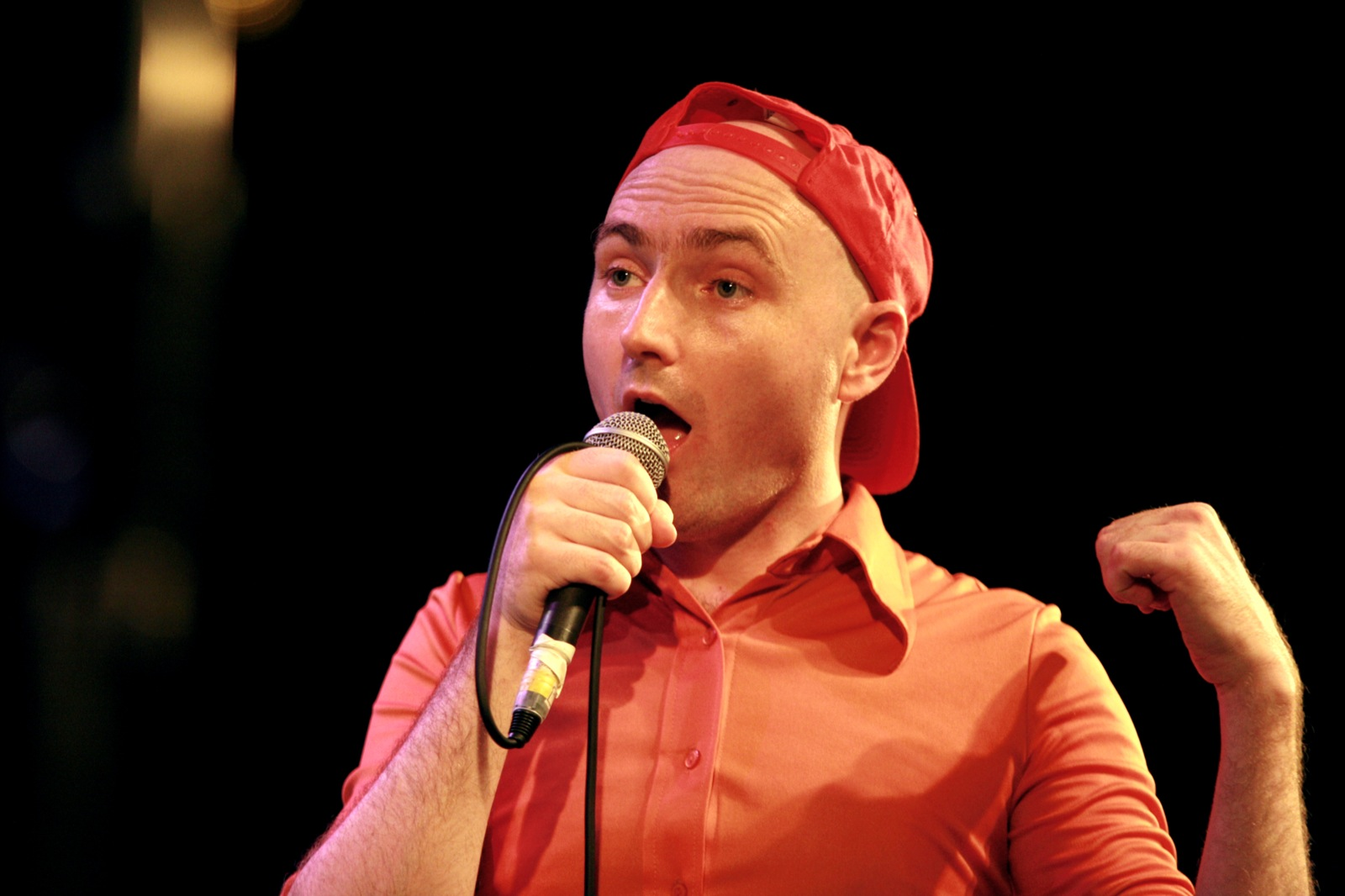 Ivan Callot, singer of "Les Fatals Picards", Oct. 2006